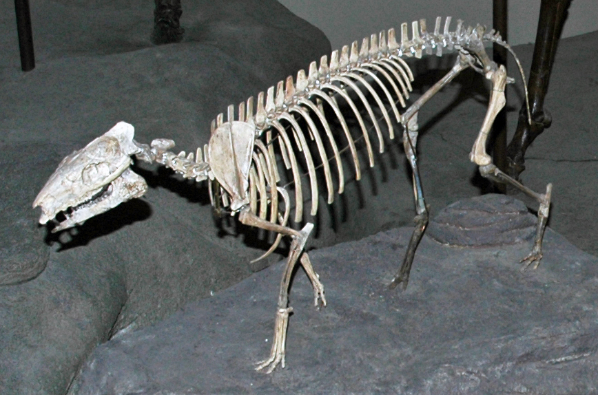 Hyracotherium vasacciense Cope, 1872 - fossil horse skeleton from the Eocene of Colorado, USA. (public display, Carnegie Museum of Natural History, Pittsburgh, Pennsylvania, USA) (based on AMNH specimens - American Museum of Natural History, New York City, New York, USA) This species is also known as Eohippus angustidens. From museum signage: "Popularly known as Eohippus or the dawn horse, Hyracotherium is the earliest known member of the horse family. However, with its small head, arched back, long tail, and spreading feet, the tiny Hyracotherium didn’t look much like the horse as we know it! Standing only two feet high, Hyracotherium roamed North America and Europe, 55 million years ago. Its low-crowned teeth were designed for eating the soft leaves of the abundant Eocene tropical forest. The size and complexity of Hyracotherium’s brain suggests the animal was relatively intelligent. This may help to explain the lengthy survival of of the horse through time. " Classification: Animalia, Chordata, Vertebrata, Mammalia, Perissodactyla, Equidae Stratigraphy: Huerfano Formation, Lower Eocene Locality: Huerfano Basin, Huerfano County, southern Colorado, USA See info. at: and